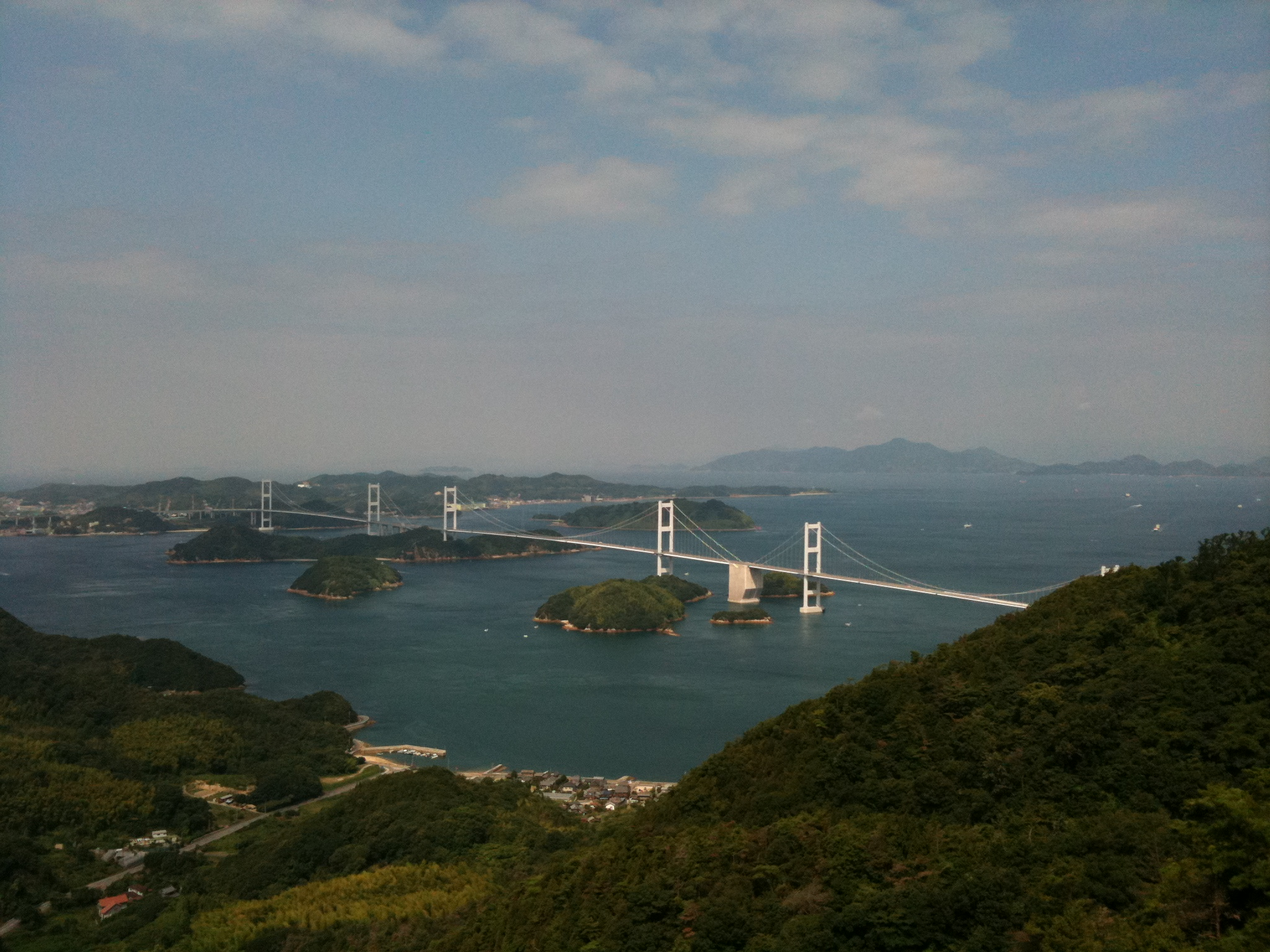 The Kurushima-Kaikyō Bridge between Imabari and Yoshiumi in Ehime Prefecture, Japan